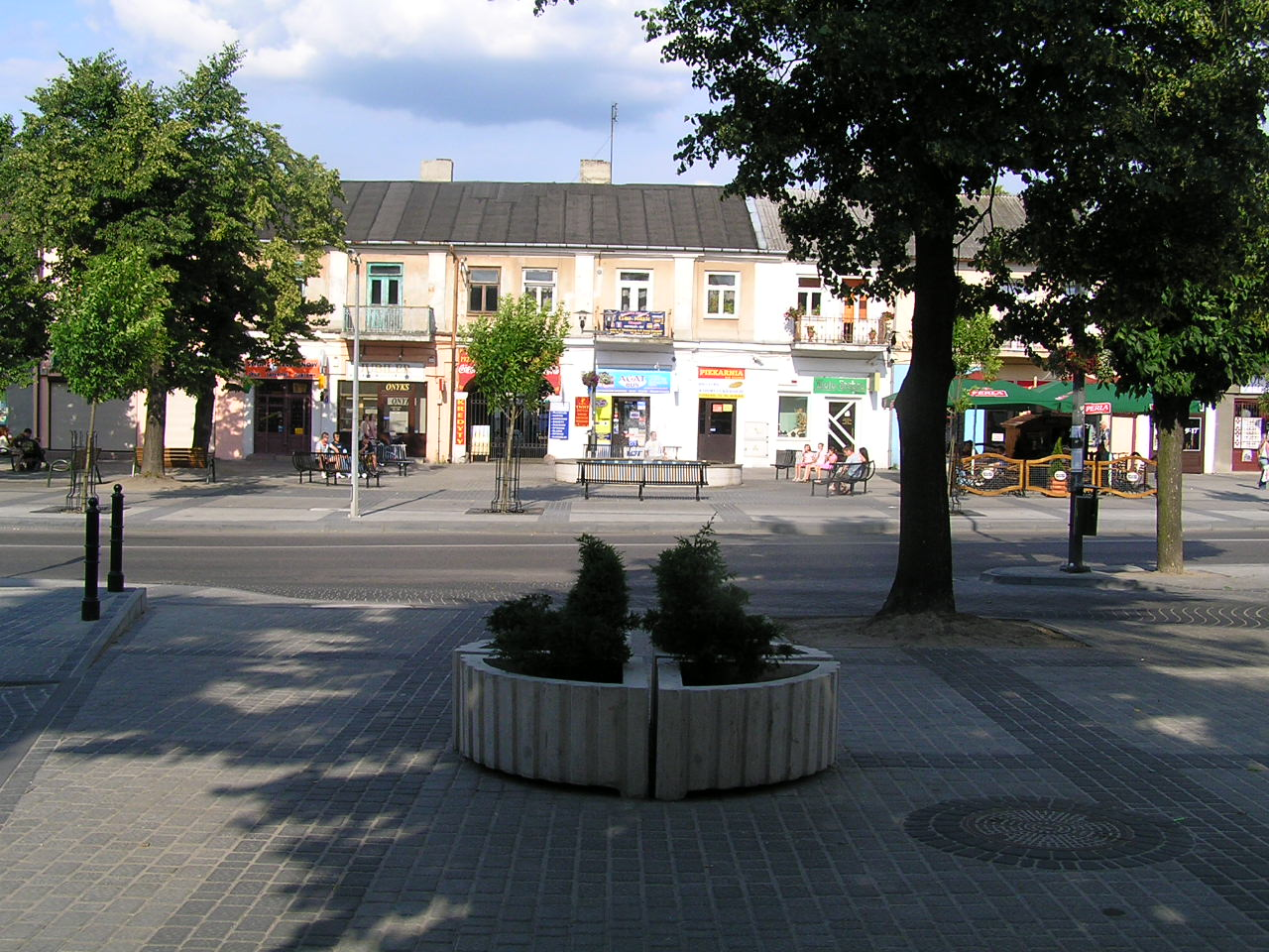 autor: Yarek shalom 14:02, 23 October 2006 (UTC)yarek shalom